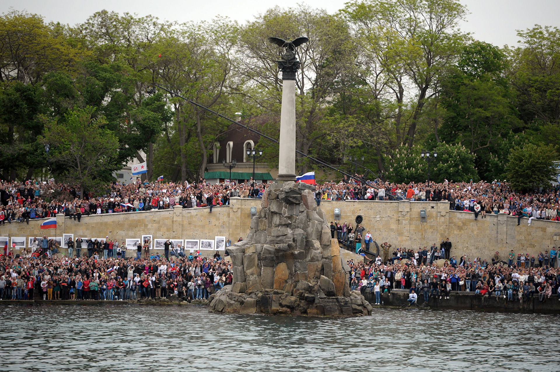 Celebrating Victory Day and the 70th anniversary of Sevastopol’s liberation.